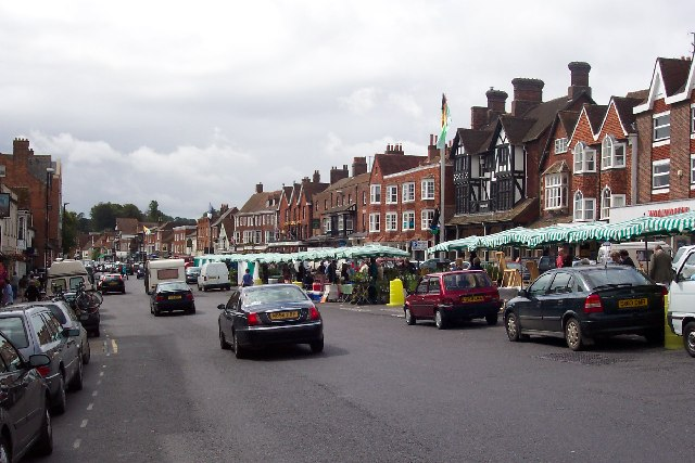 Marlborough, Wilts. Vibrant main street and market